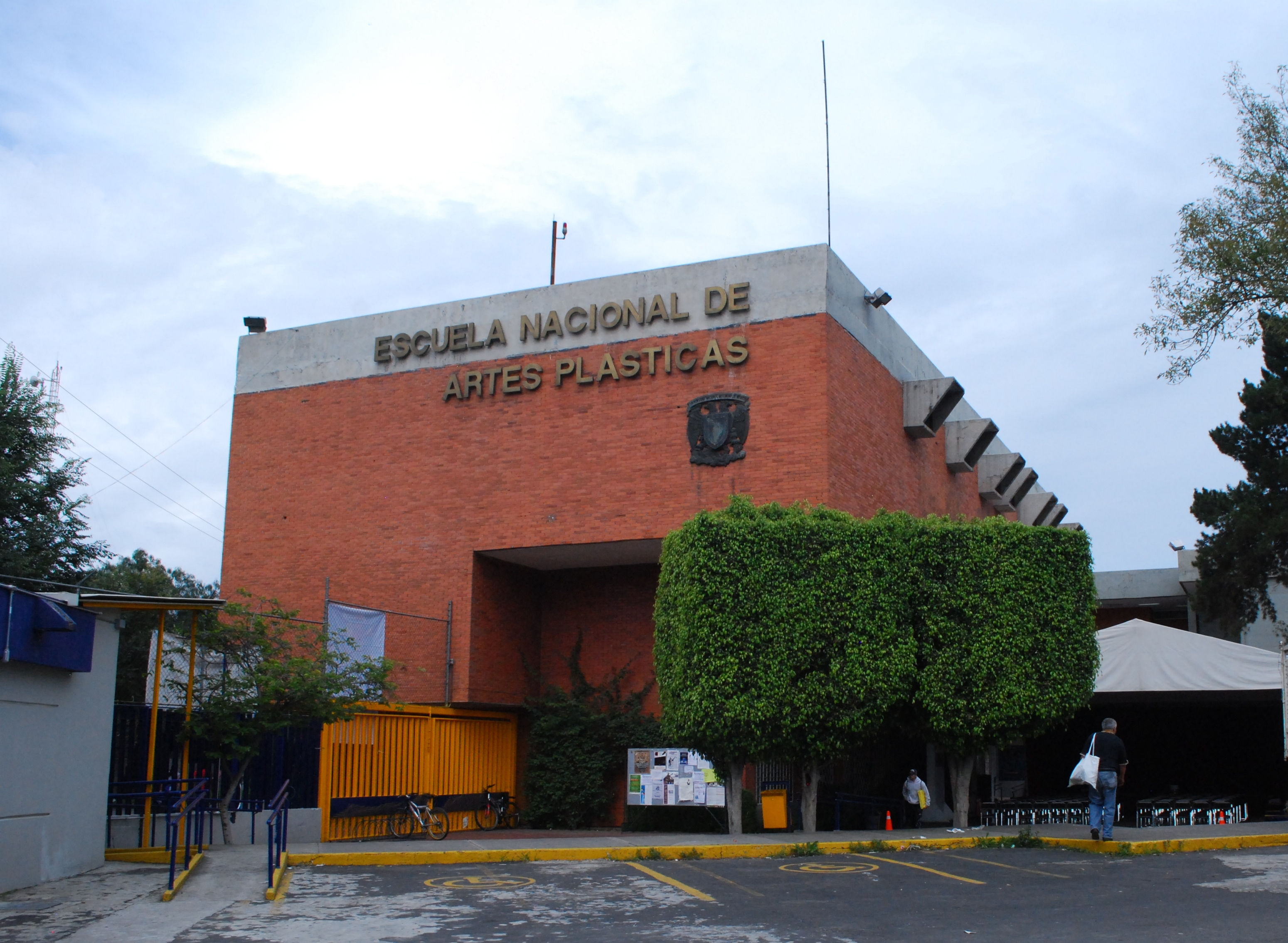 Main entrance area to the Escuela Nacional de Artes Plasticas in Mexico City